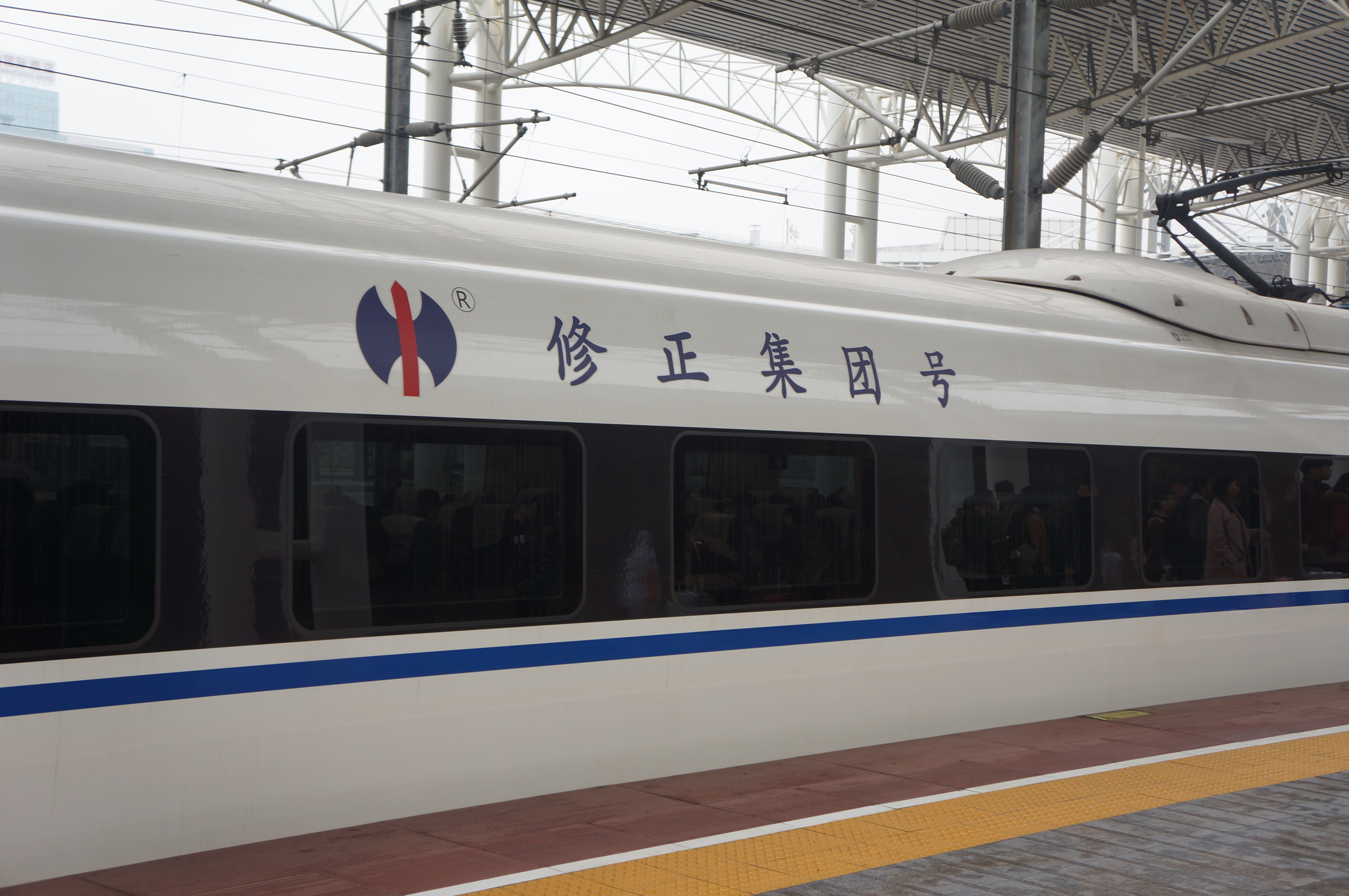 201712 CRH380B with Xiuzheng Pharma adv at Changzhou Station